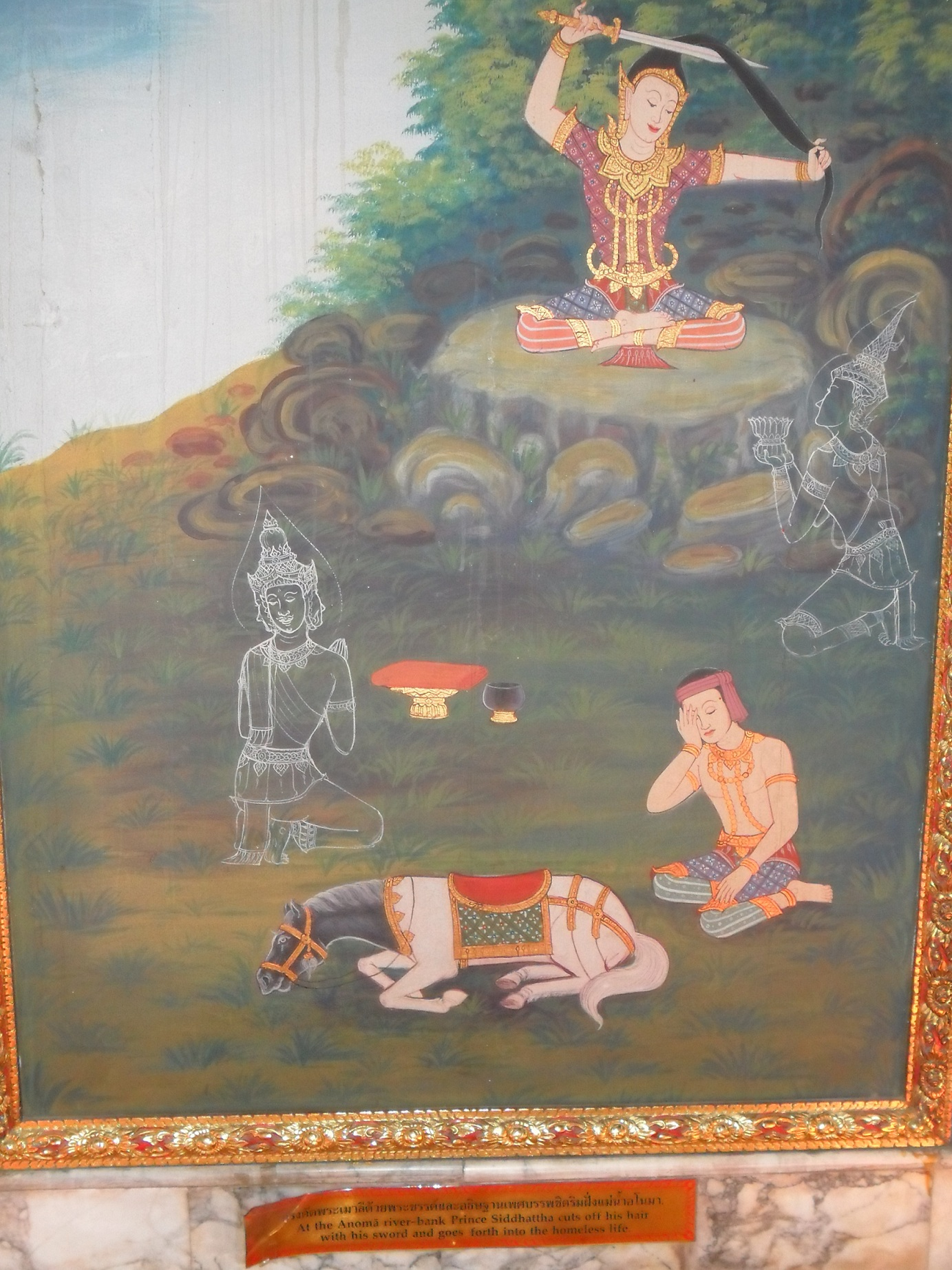 Painting in a temple of Thailand